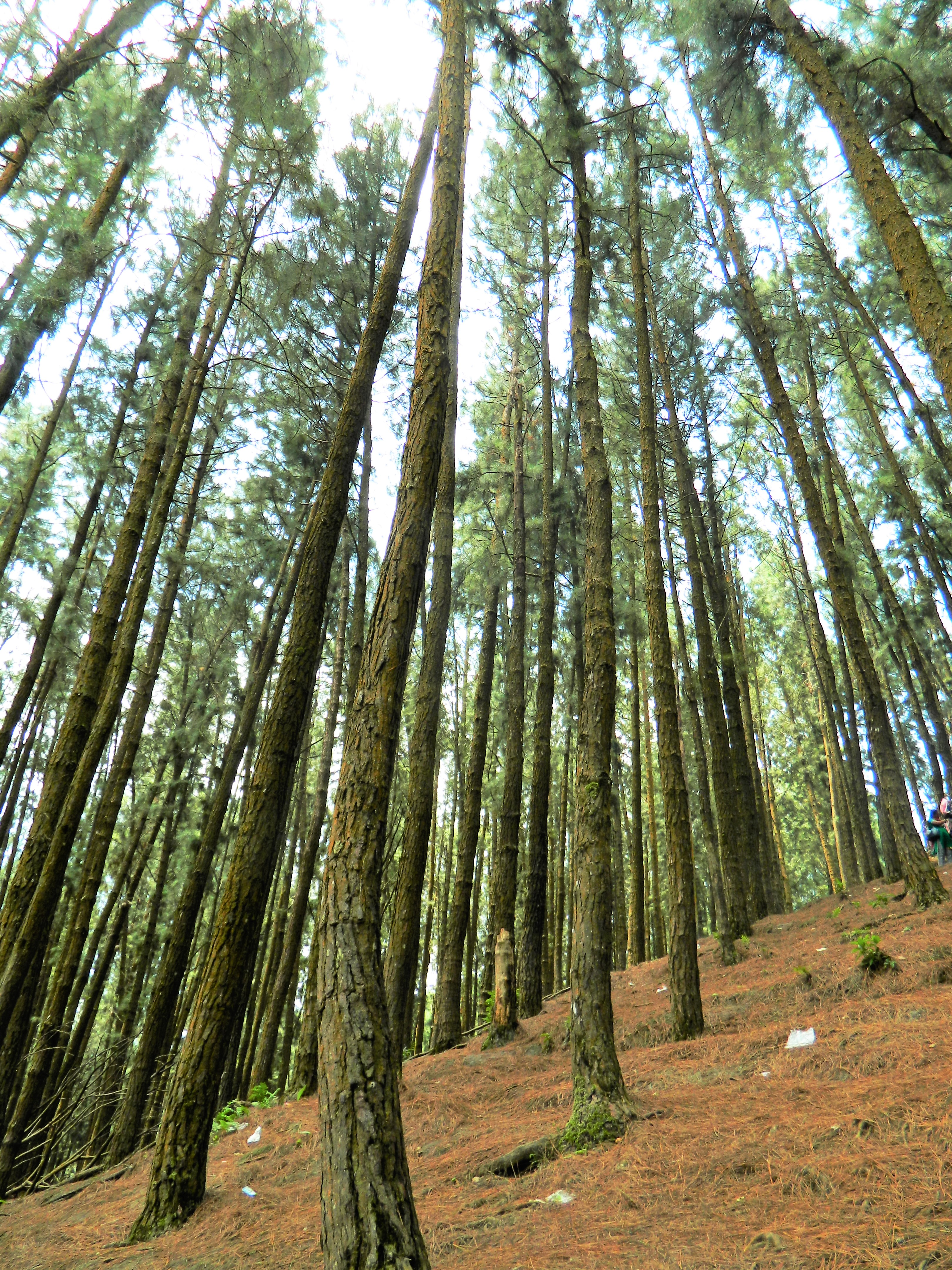 In Kerala, Southern Western Ghats of India.